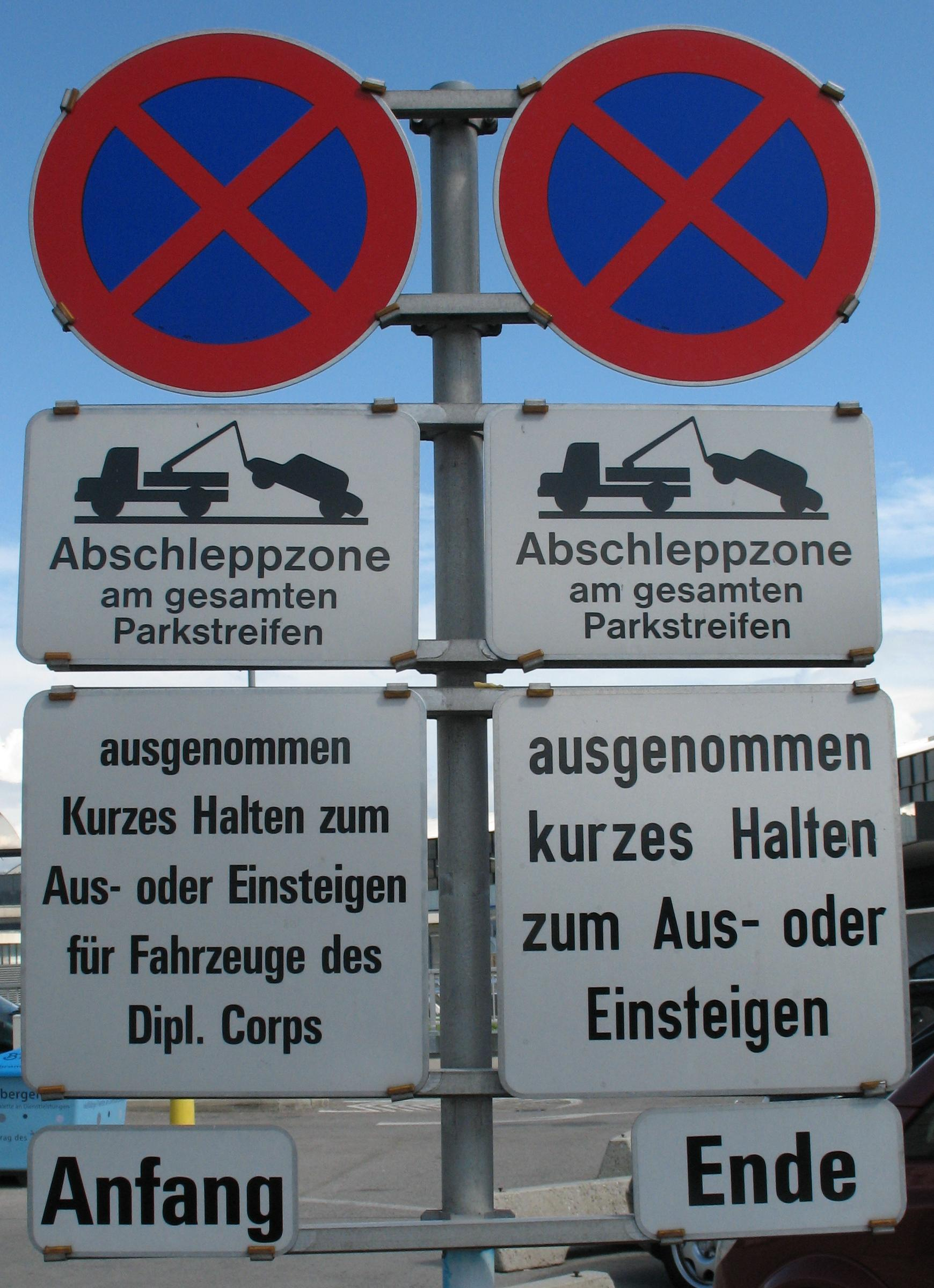 Traffic signs in Vienna, Austria